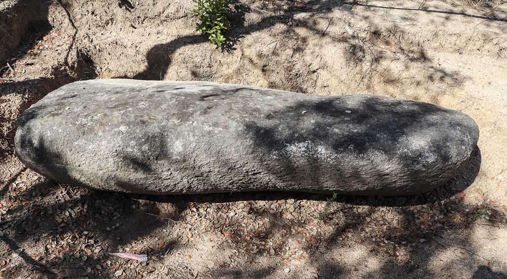 Menhir Pla de les Bruixes